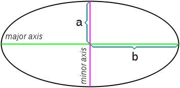 Ellipse showing minor semiaxis as a and major as b